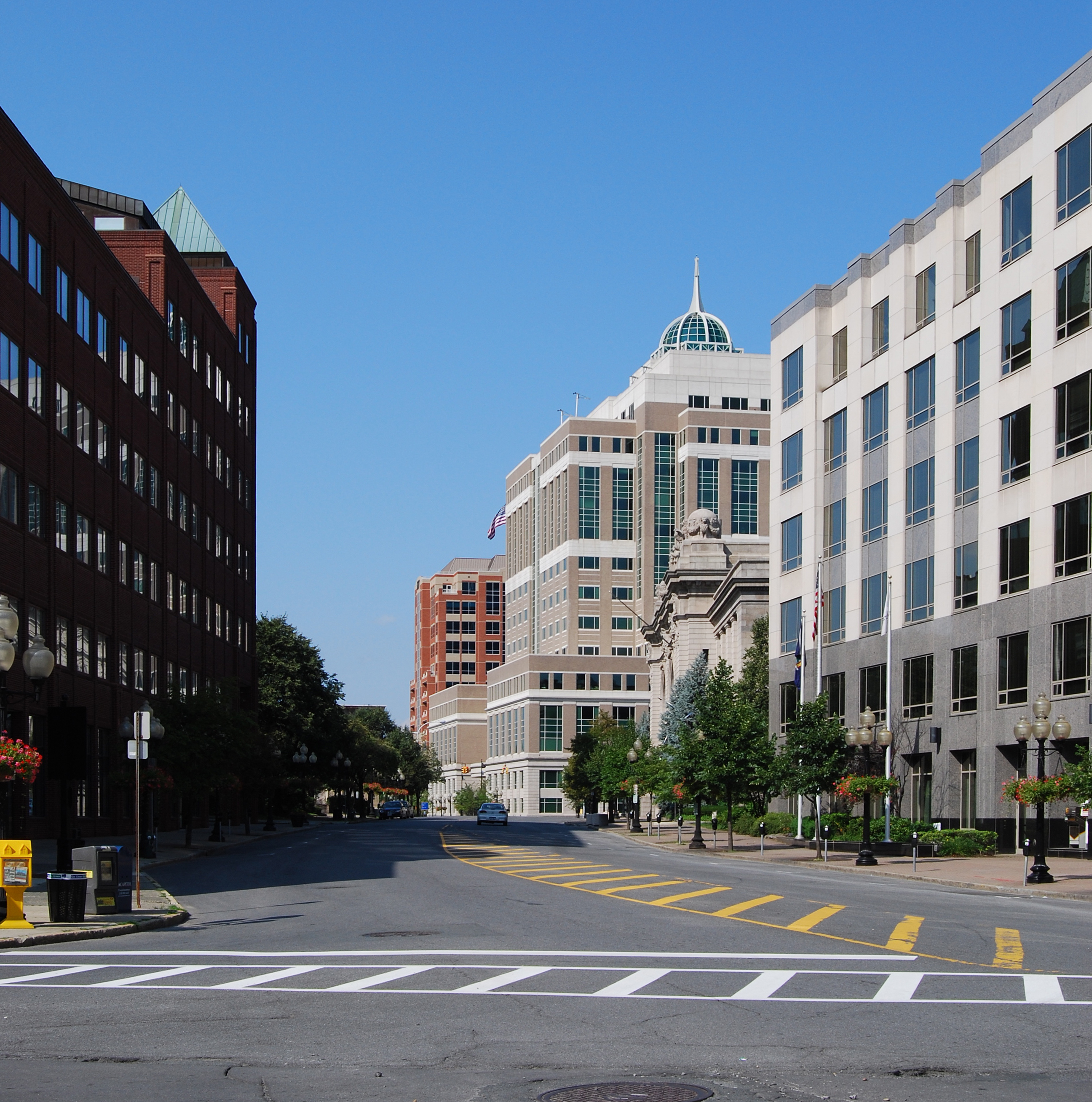 Broadway in Albany, New York, United States